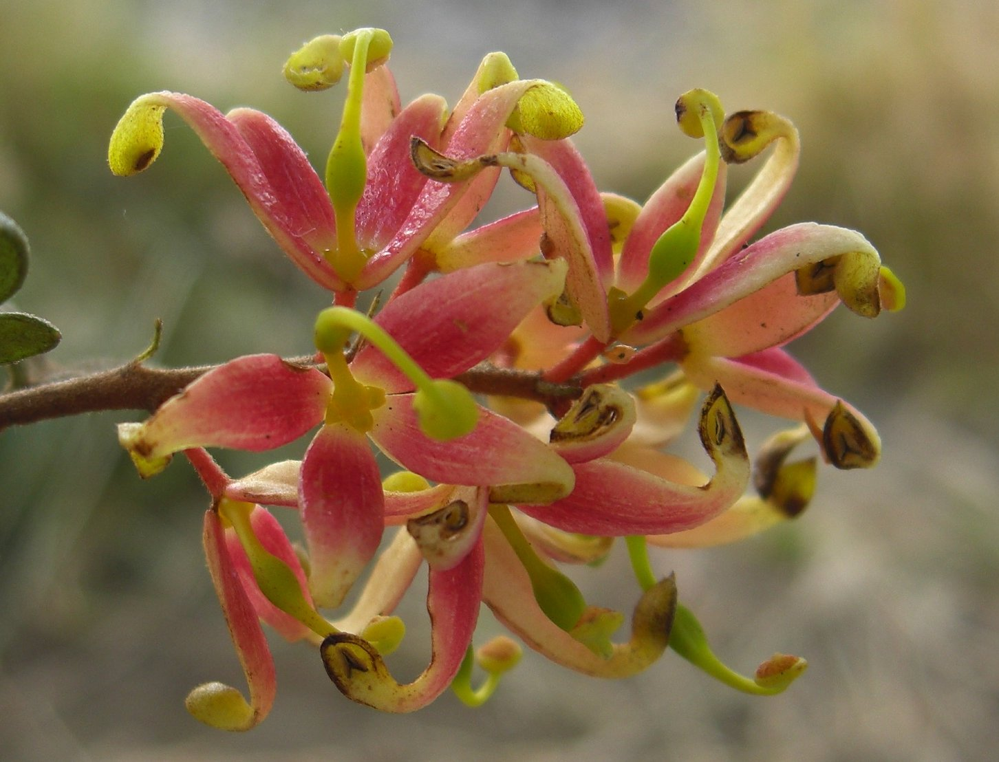 Lomatia ferruginea (Cav.) R. Br. 20081221 Parque Nacional Puyehue, Chile In the Proteaceae family. There are quite a number of rather diverse (in leaf and stature if not flower) trees in this family down here. Check out the leaf on this one at . You see why I've been calling this the "fern tree"?